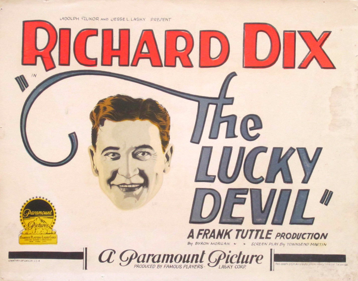 Lobby card for the Americn comedy drama film The Lucky Devil (1925).